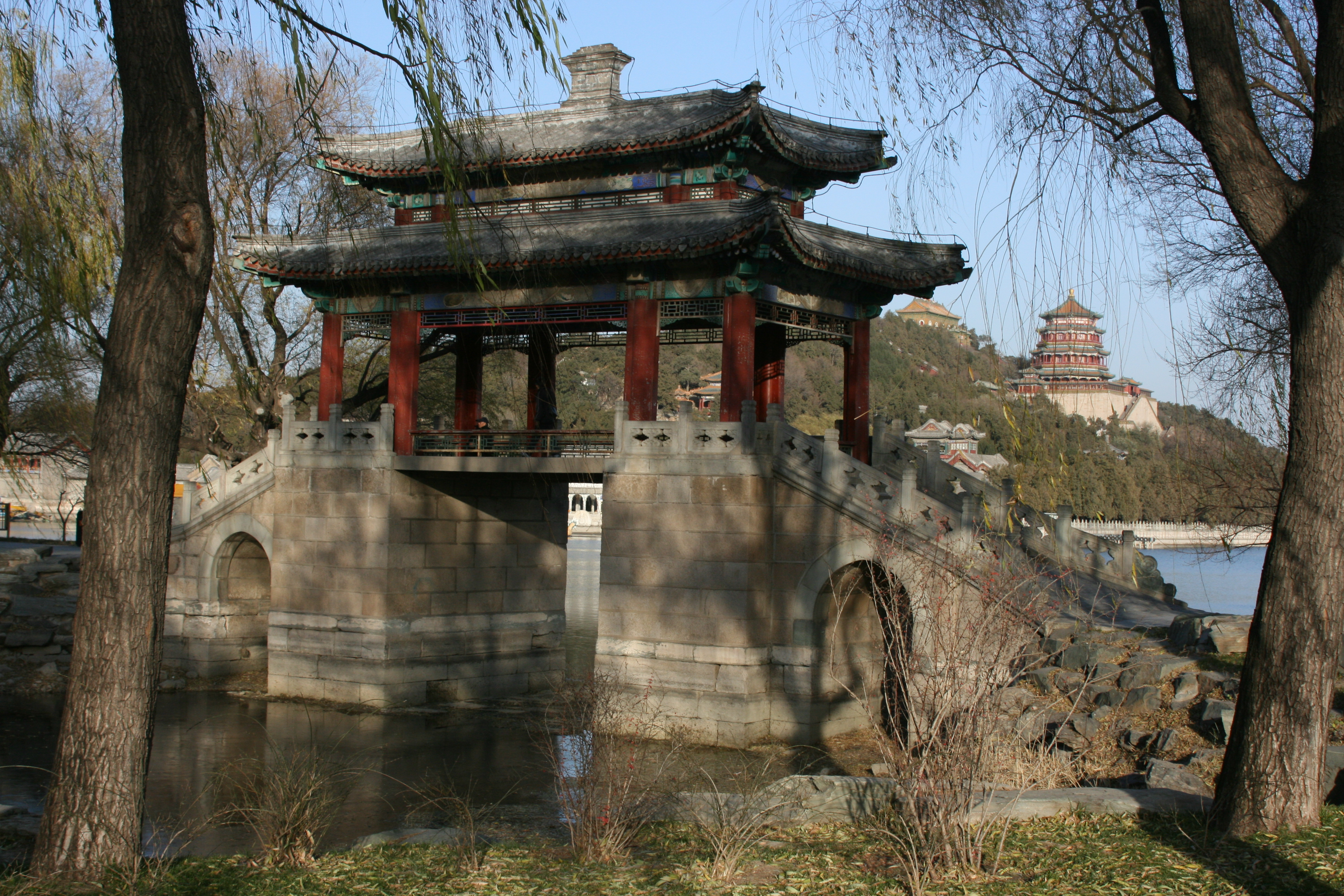 A bridge with a pavilion on top in the Summer Palace in Beijing, China.